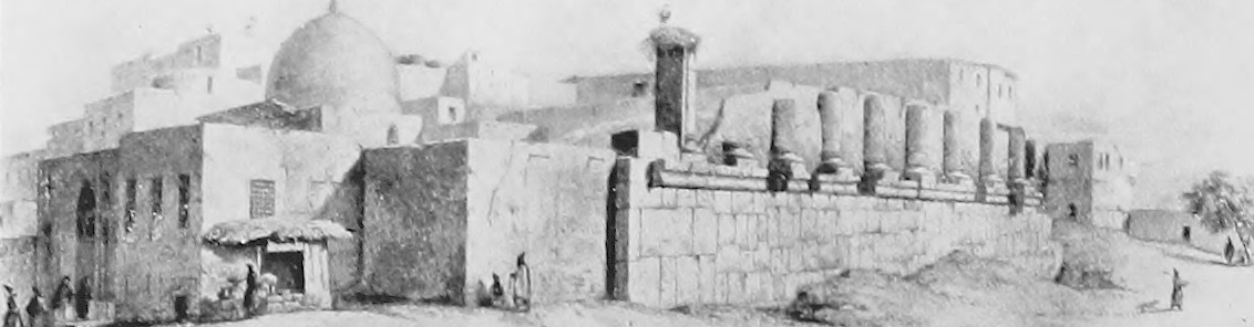 Identifier: cu31924028627036 Title: Persia past and present; a book of travel and research, with more than two hundred illustrations and a map Year: 1906 (1900s) Authors: Jackson, A. V. Williams (Abraham Valentine Williams), 1862-1937 Subjects: Zoroastrianism Publisher: New York, The Macmillan Company London, Macmillan & Co., ltd. Text Appearing Before Image: r knowledgeof the Zoroastrian religion during the Parthian period, regard-ing which our information is in many respects scanty. In anyevent Kangavar offers a good field for archaeological research,and I believe that scientific excavations in the vicinity, as atTak-i Bostan and throughout the valley, would yield importantresults. Continuing the journey toward Hamadan, I stayed overnight, for the second time, at the small walled village of Asad-abad, or Saidabad, four and a half farsakhs (about twentymiles) distant from Kangavar.* This settlement lies at the 1 Yt. 5. 1. 8 Dieulafoy, UArt Antique de la 2 For specimens of the bases and Perse, pt. 5, pp. 7, 8, 207. capitals of the columns, see Ker Porter, * The distance is given by Masson, Travels, 1. pi. 43 c ; and compare also JBAS. 12. 99 (after Webb) as twenty- the drawings of Flandin and Coste, two miles; Curzon, Persia, 1. 57, says Voyage en Perse, Texte, p. 13, and the (approximately) twenty-three miles,allusions to the Doric order. Text Appearing After Image: i^i-A The Kuinki) Tkmplk at KAMiv\Ai; (FlaiuUns .|[-a\\iiig of the iiortli-n-est wall. The niciileni iiuiMings tn the left f the pirture have disapiieared)